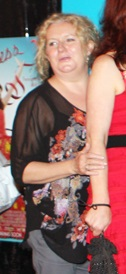 Celia Ireland at the 'Goddess' world premiere Red Carpet event in Bondi Junction, Sydney, Australia